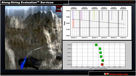 This image represents the driller’s view of downhole information provided by the IntelliServ Broadband Network. The top right section shows a pack-off traveling up the annulus as it makes it way past the 5 sensors.